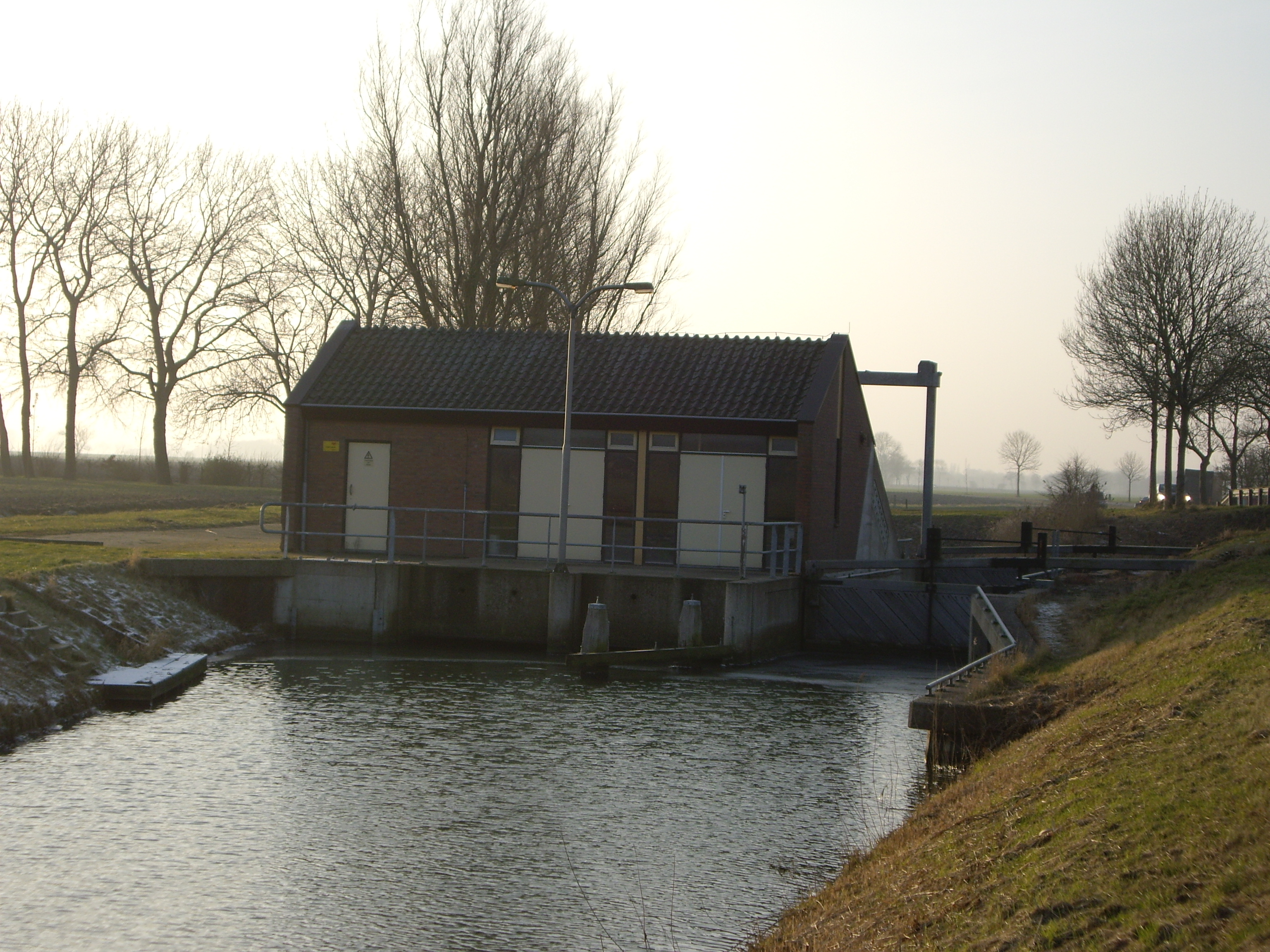 Pumping station near the village of Loppersum, Groningen, NL